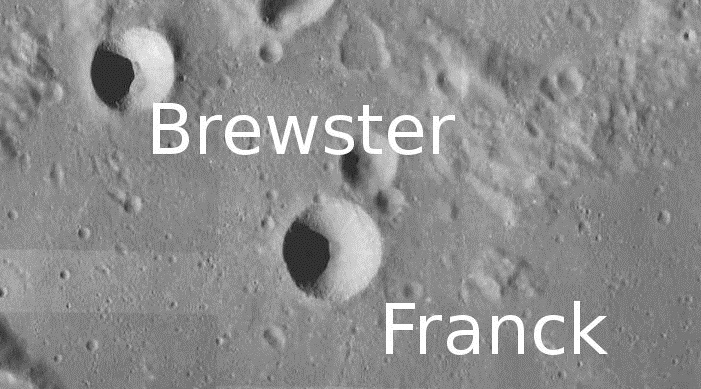 Derivative work from "Sinus_Amoris_%2B_Lacus_Bonitatis_-_LROC_-_WAC.JPG" cropping the area of Brewster & Franck craters.